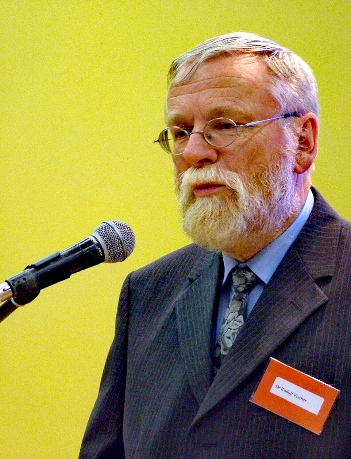 Rudolf-Josef Fischer, chairman of German Esperanto Association, on a German-Dutch Esperanto meeting in Nordwalde, North Rhine Westfalia, october 2007